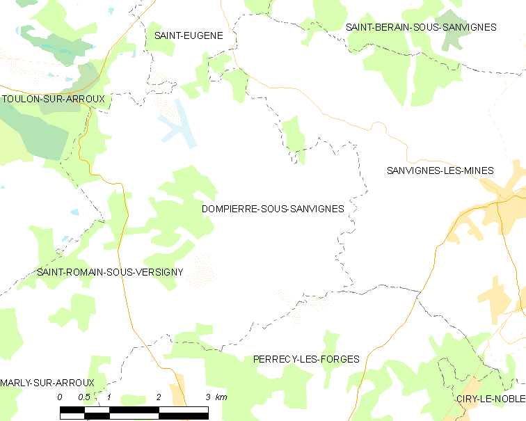 Map of French municipality